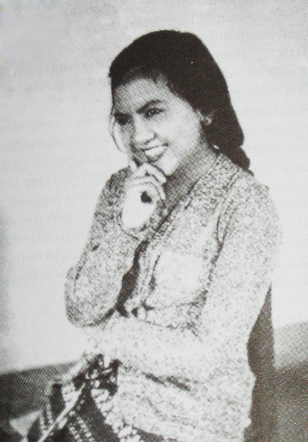 Promotional photograph of Miss Soerip, actress and singer from the Dutch East Indies